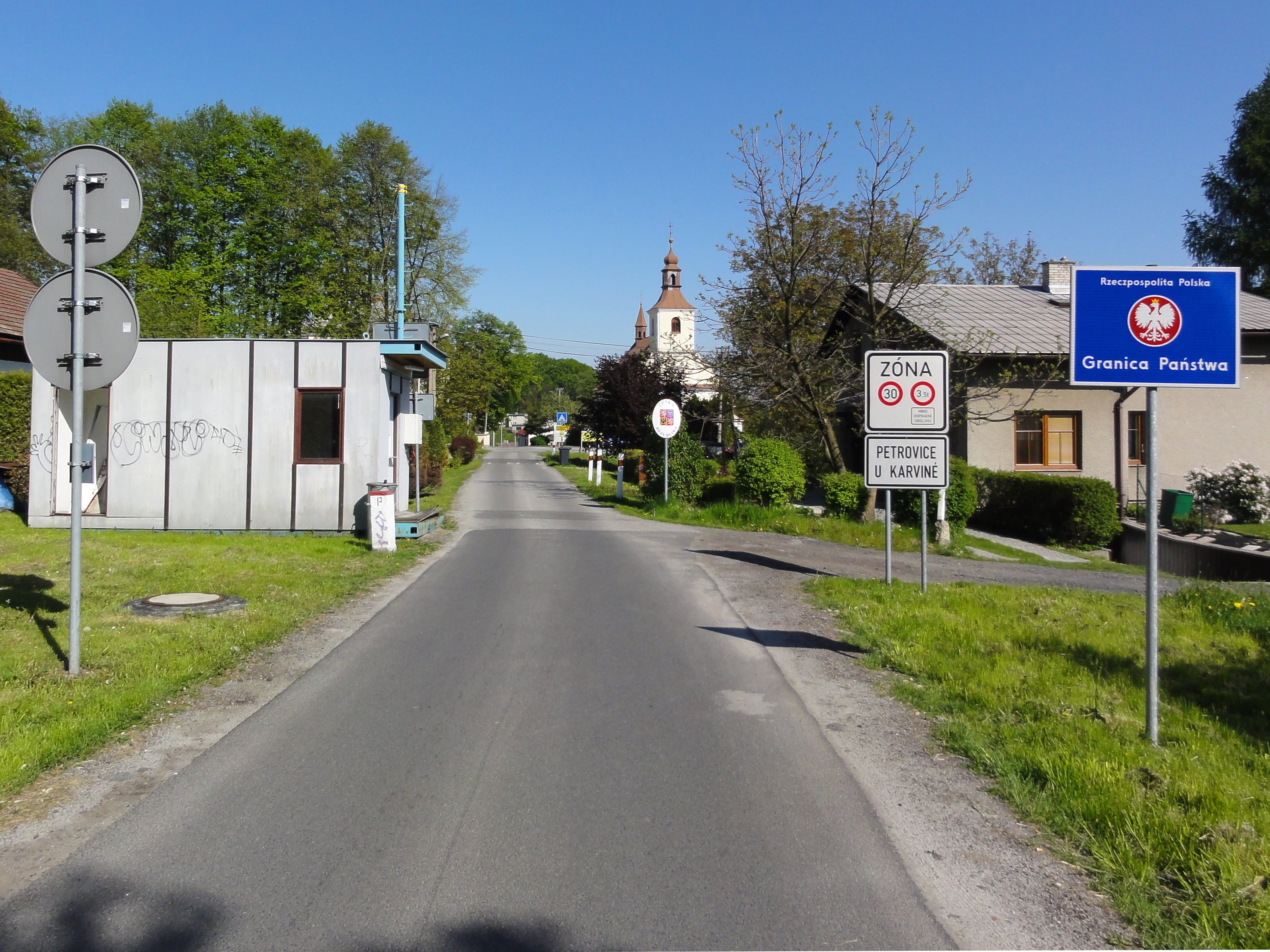 Former border control between Skrbeńsko (Poland) and Petrovice u Karviné (Czech Republic), view from Skrbeńsko